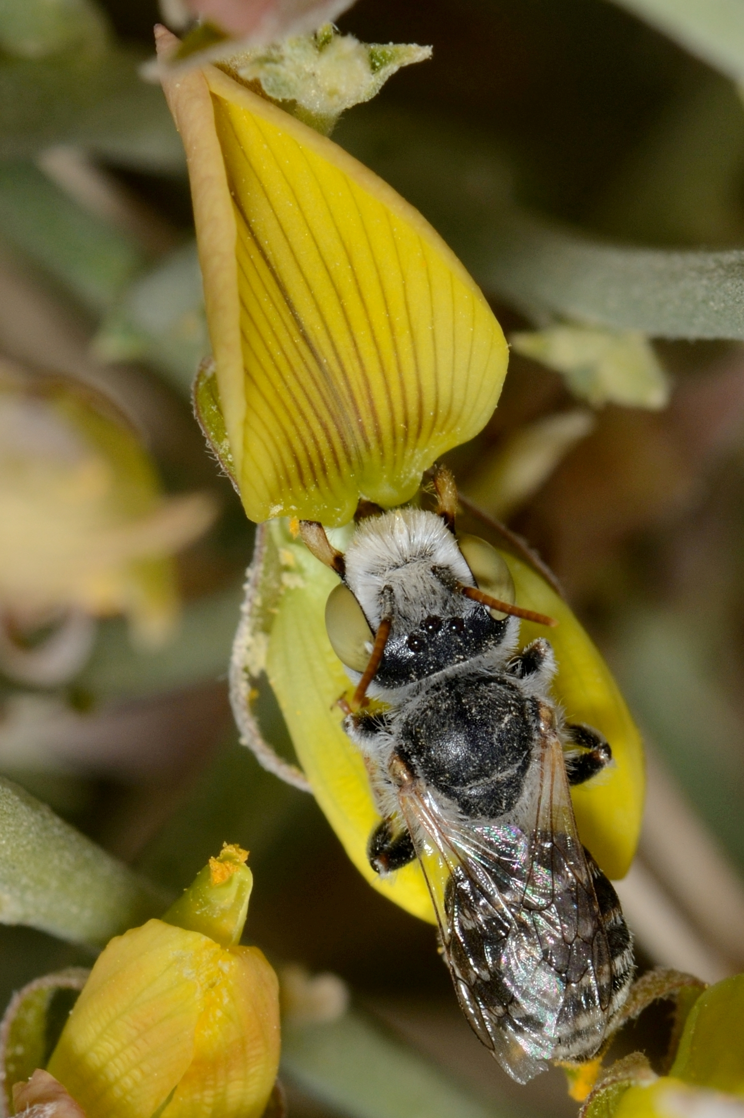 Hoplitis (Hoplitis) parana (Warncke, 1991), female extracting nectar from Crotalaria aegyptiaca Benth., Shezaf Reserve, Rift Valley, Israel, March 11, 2013.